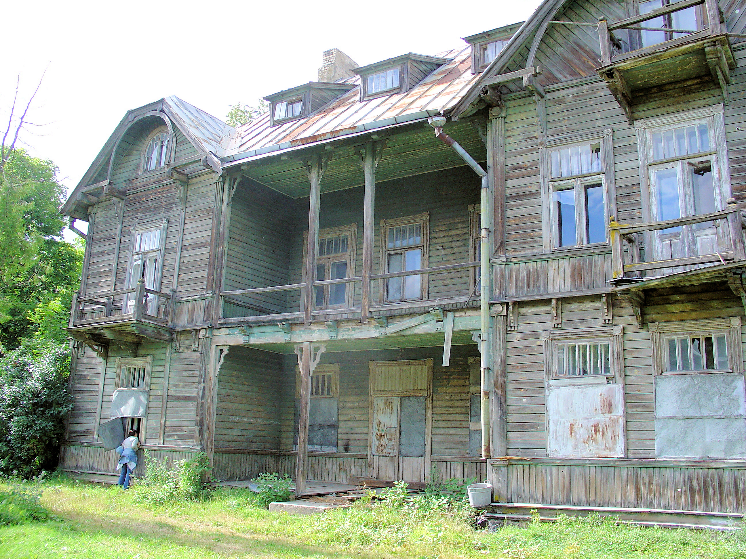 Wooden villa "Green cottage" in Różanystok, beginning XX century